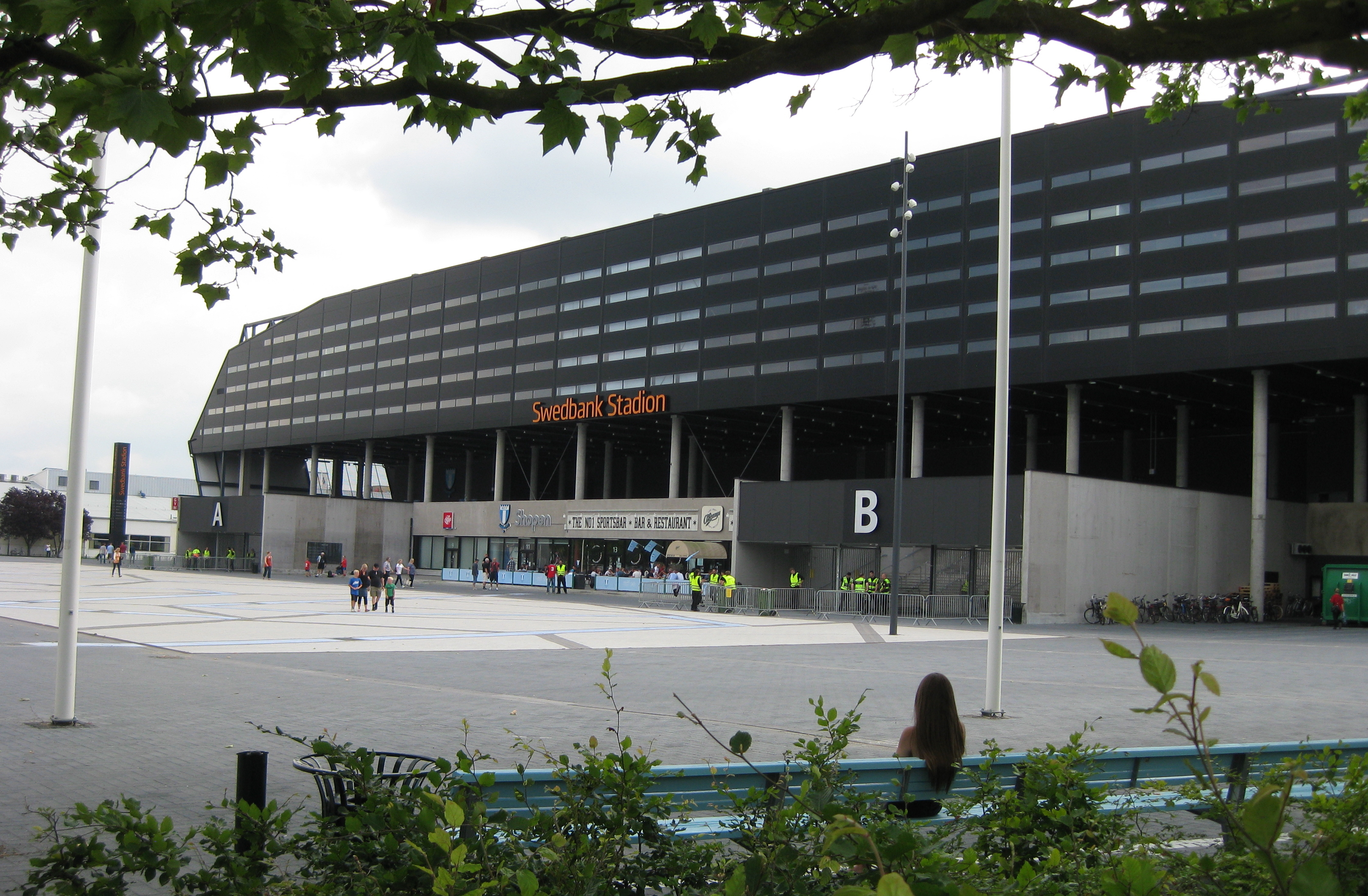 Swedbank Stadion 2011